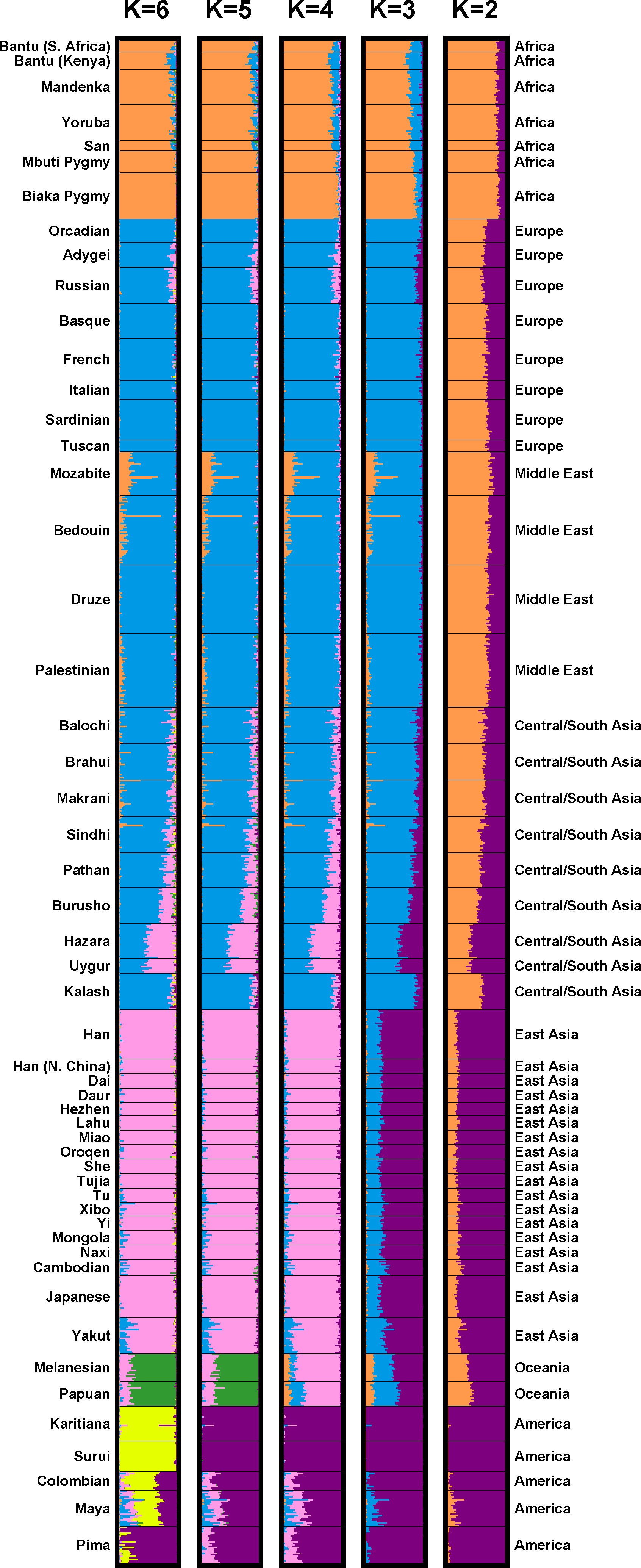 Inferred Population Structure Based on 1,048 Individuals and 993 Markers, Assuming Correlations among Allele Frequencies across Clusters. Each individual is represented by a thin line partitioned into K colored segments that represent the individual's estimated membership fractions in K clusters. Each plot, produced with DISTRUCT, is based on the highest-likelihood run of ten runs: the two runs that were used in further analysis, and the eight runs described under “Cluster Analysis using STRUCTURE.” As in [3], four of ten runs with K = 3 separated a cluster corresponding to East Asia instead of one corresponding to Europe, the Middle East, and Central/South Asia. Two of ten runs with K = 5 separated Surui instead of Oceania. The highest-likelihood run of the ten runs with K = 6, shown in the figure, had a different pattern from the other nine runs (not shown). These other runs, instead of subdividing native Americans into two clusters, subdivided a cluster roughly similar to the Kalash cluster seen in [3], except with a less pronounced separation of the Kalash population. The clusteredness scores for the plots shown with K = 2, 3, 4, 5, and 6 are 0.50, 0.76, 0.84, 0.86, and 0.87, respectively.